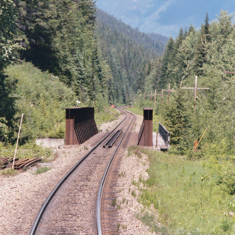 Plate girder bridge of the U - type. Eastern view from rear of Rocky Mountaineer tourist train approaching Stoney Creek Bridge, Image taken by User:Leonard G.